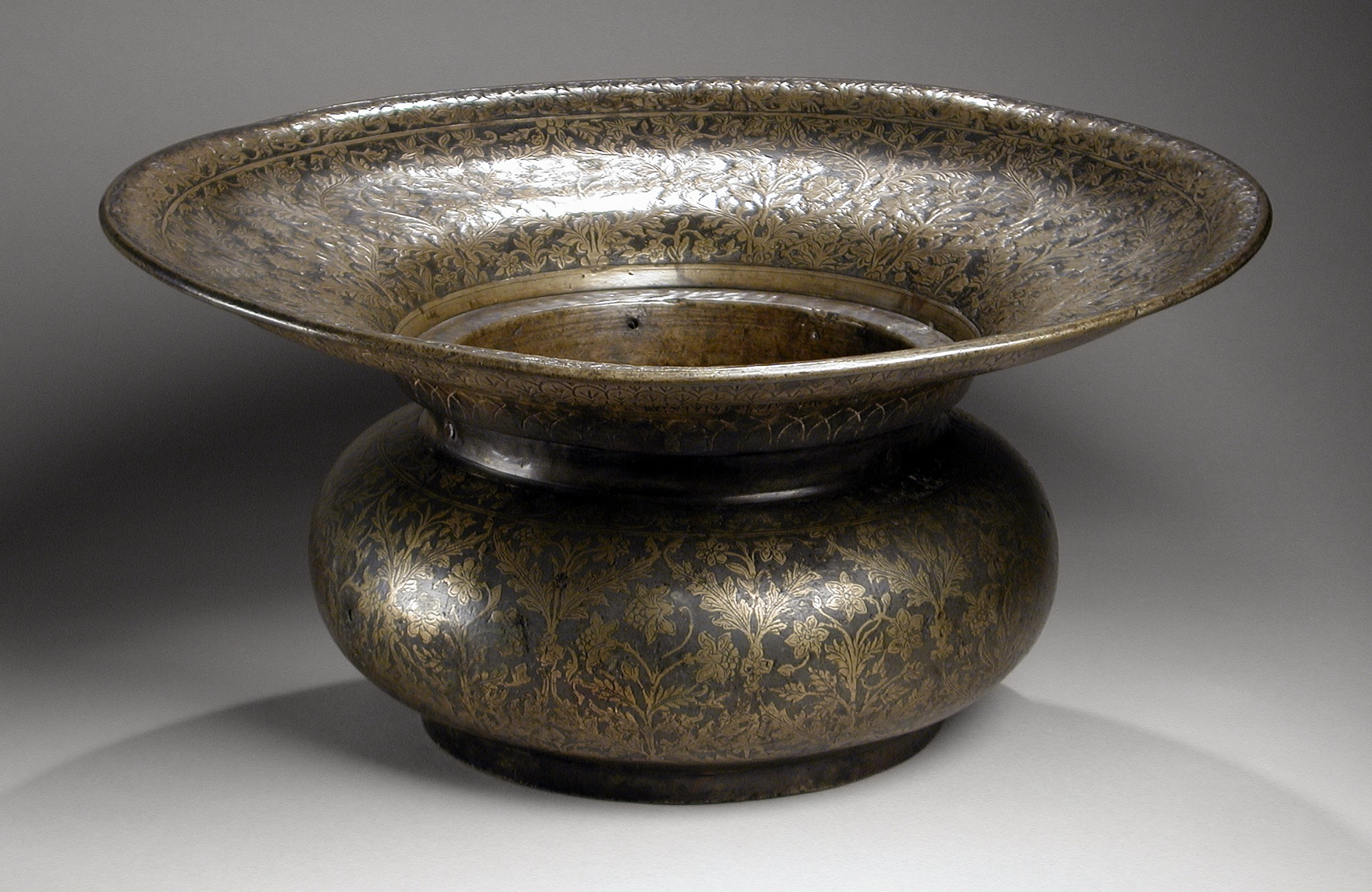 Bottom- India, Mughal empire; top- Pakistan, Lahore, Mughal empire, circa 1650 (bottom); 1741 (top) Tools and Equipment; basins Brass with black lac resinous ground 7 3/8 x DIAM: 15 1/4 in. (18.73 x 38.74 cm) South and Southeast Asian Acquisition Fund (M.2000.47) South and Southeast Asian Art